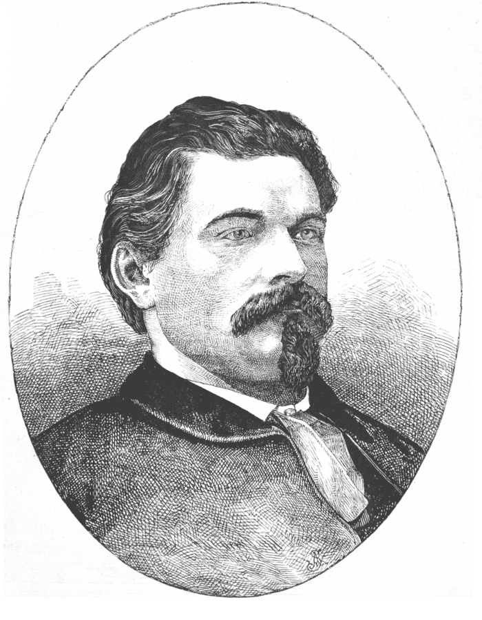 Portrait of Vítězslav Hálek, Czech poet.